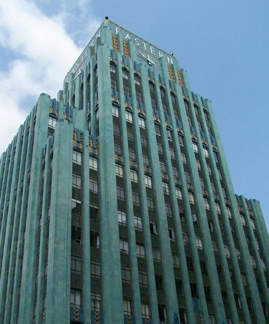 The Eastern Standard Building in Downtown Los Angeles. As shot by Molly Louise Shepard Berke, Copyright (c) 2008.